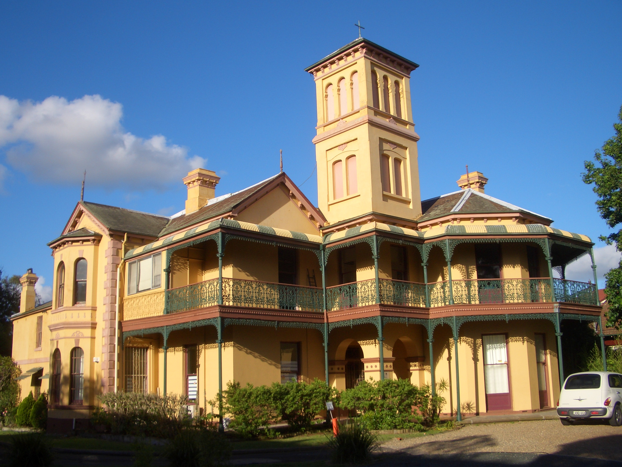 Harris Park Australian International Conservatorium of Music